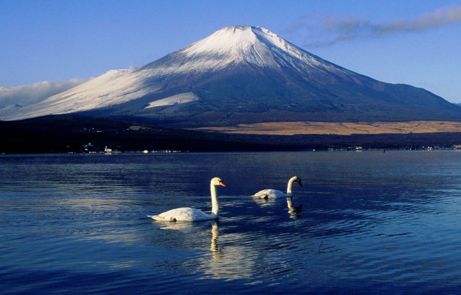 Mount Fuji from Lake Yamanaka with Cygnus olor.